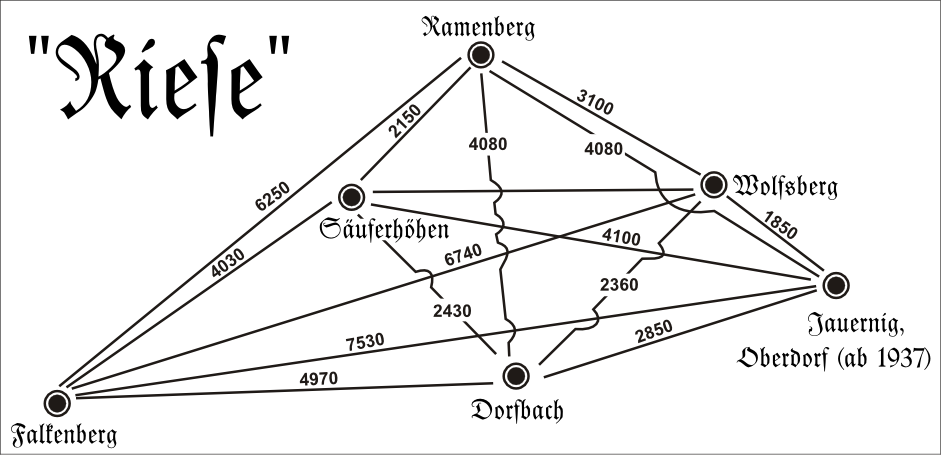 Image:Riese.svg